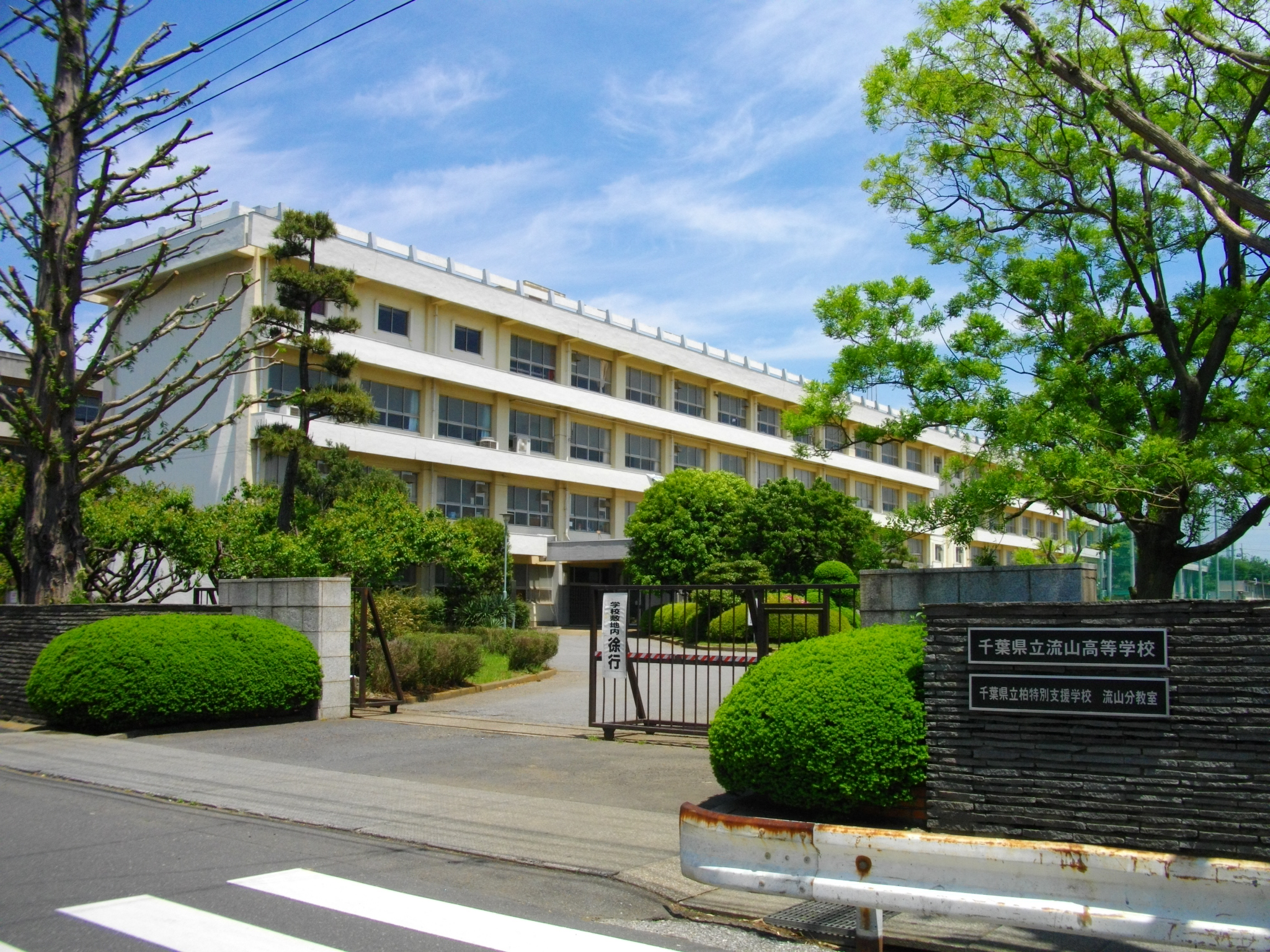 Nagareyama High School